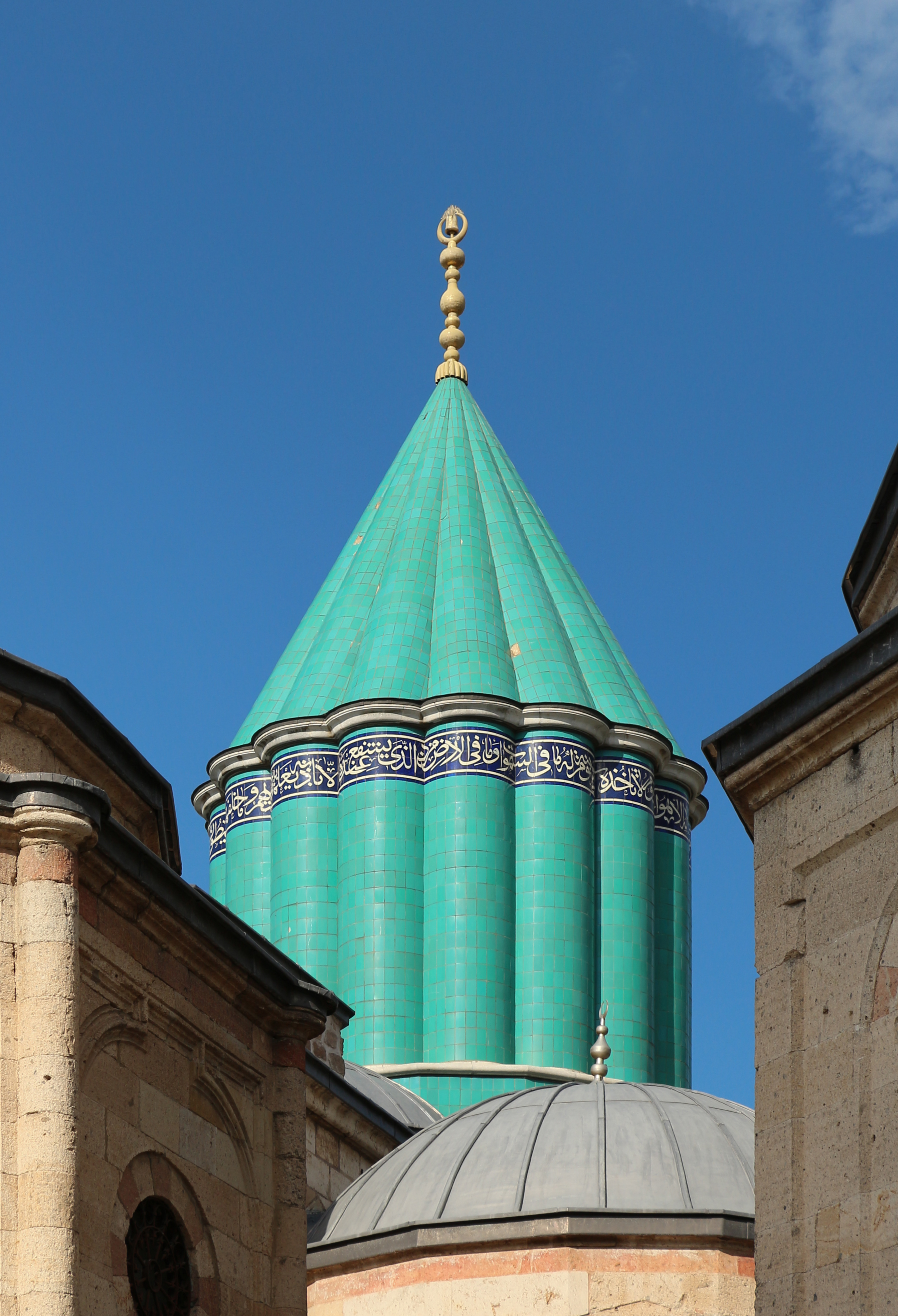 The Green Dome of the Mevlana Museum, Konya, Turkey